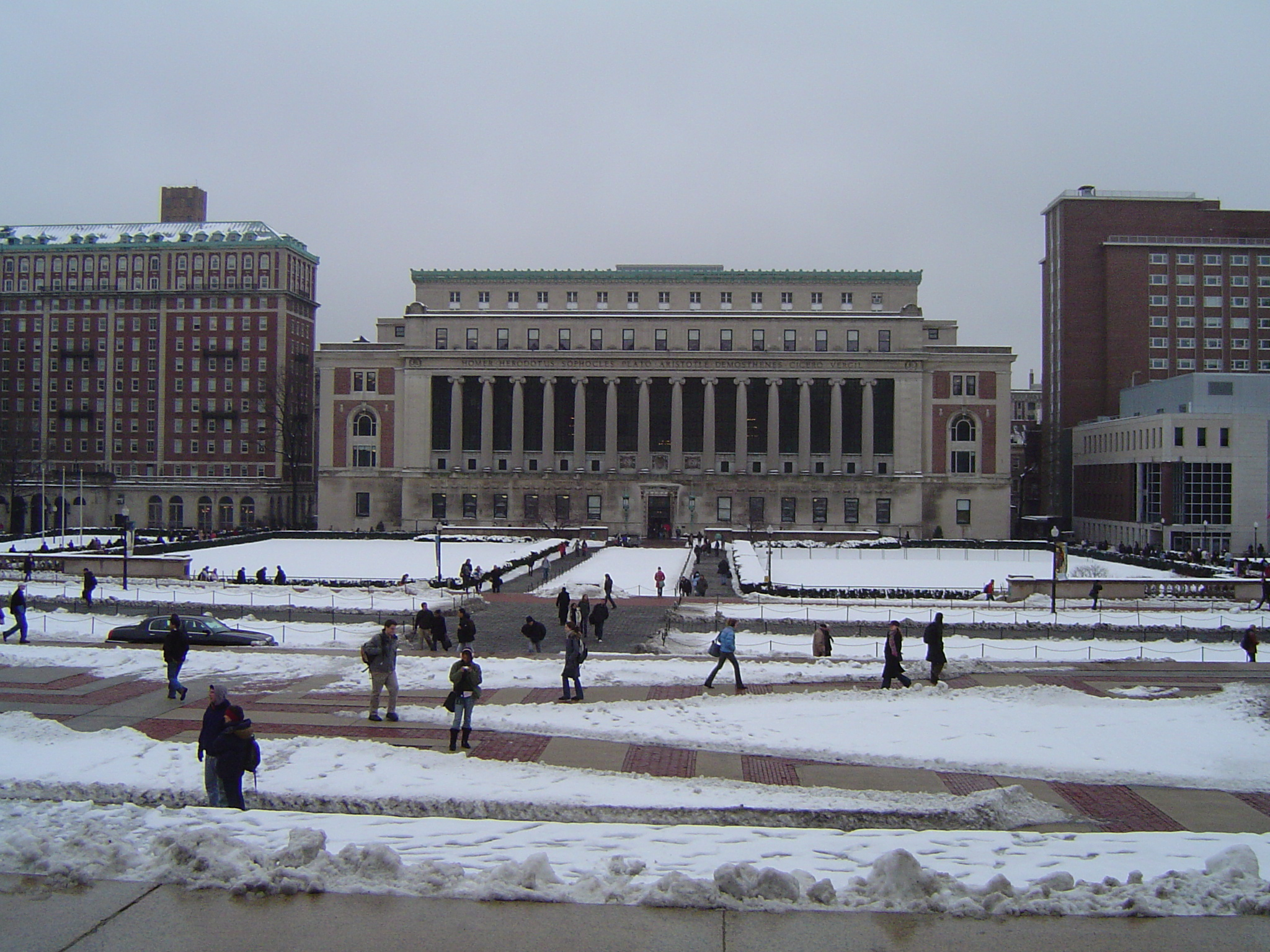 This is my picture. It is free to be used in the public domain. The picture is of Butler Library on Columbia University's campus. This was taken in February of 2005.